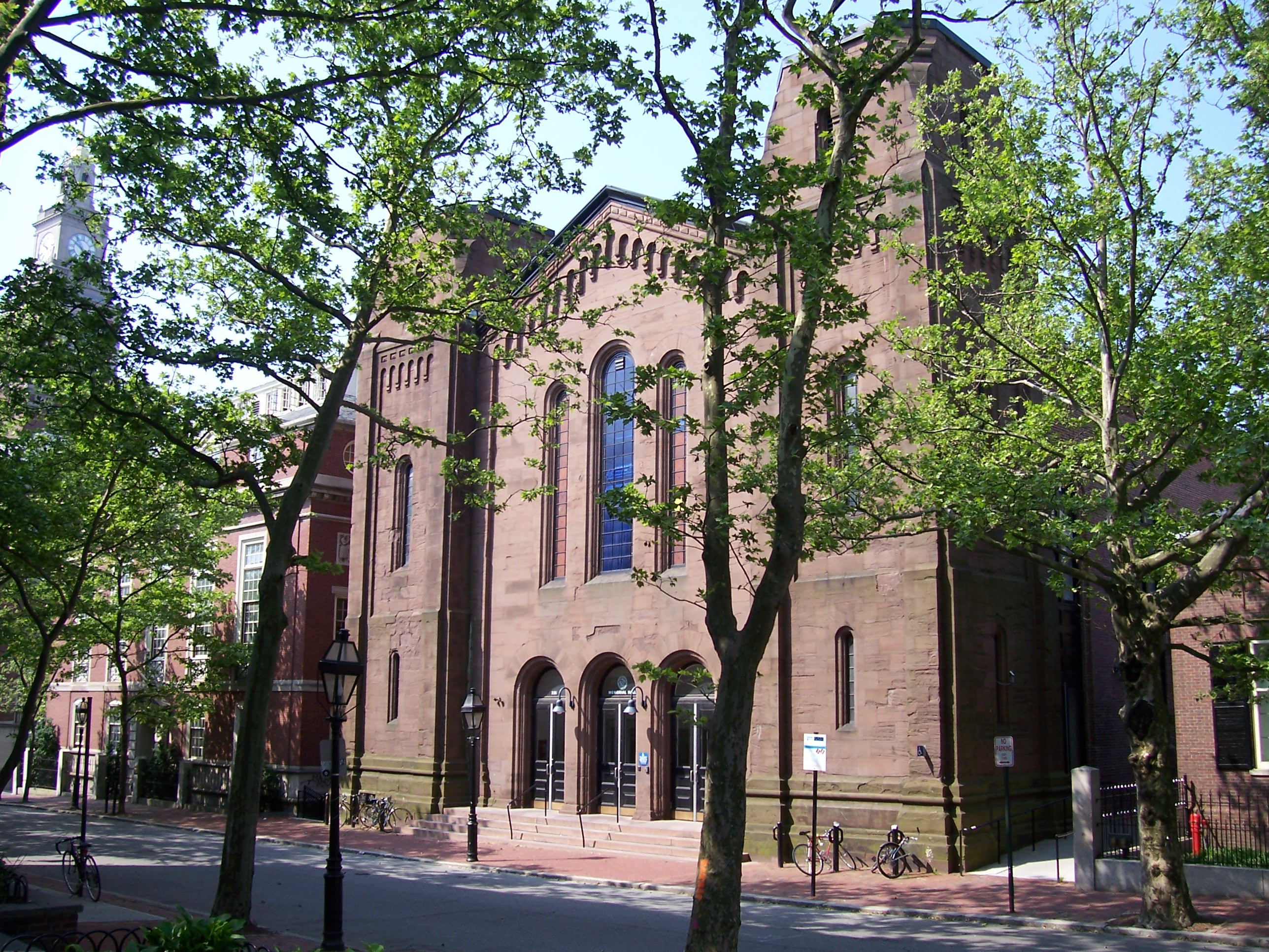 Rhode Island School of Design Memorial Hall